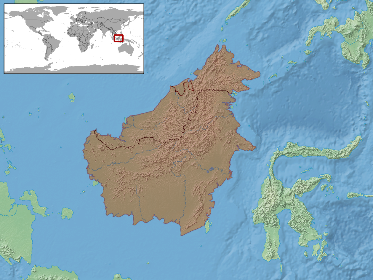 geographic distribution of Calamaria grabowskyi (Native: Brunei Darussalam; Indonesia (Kalimantan); Malaysia (Sabah, Sarawak))